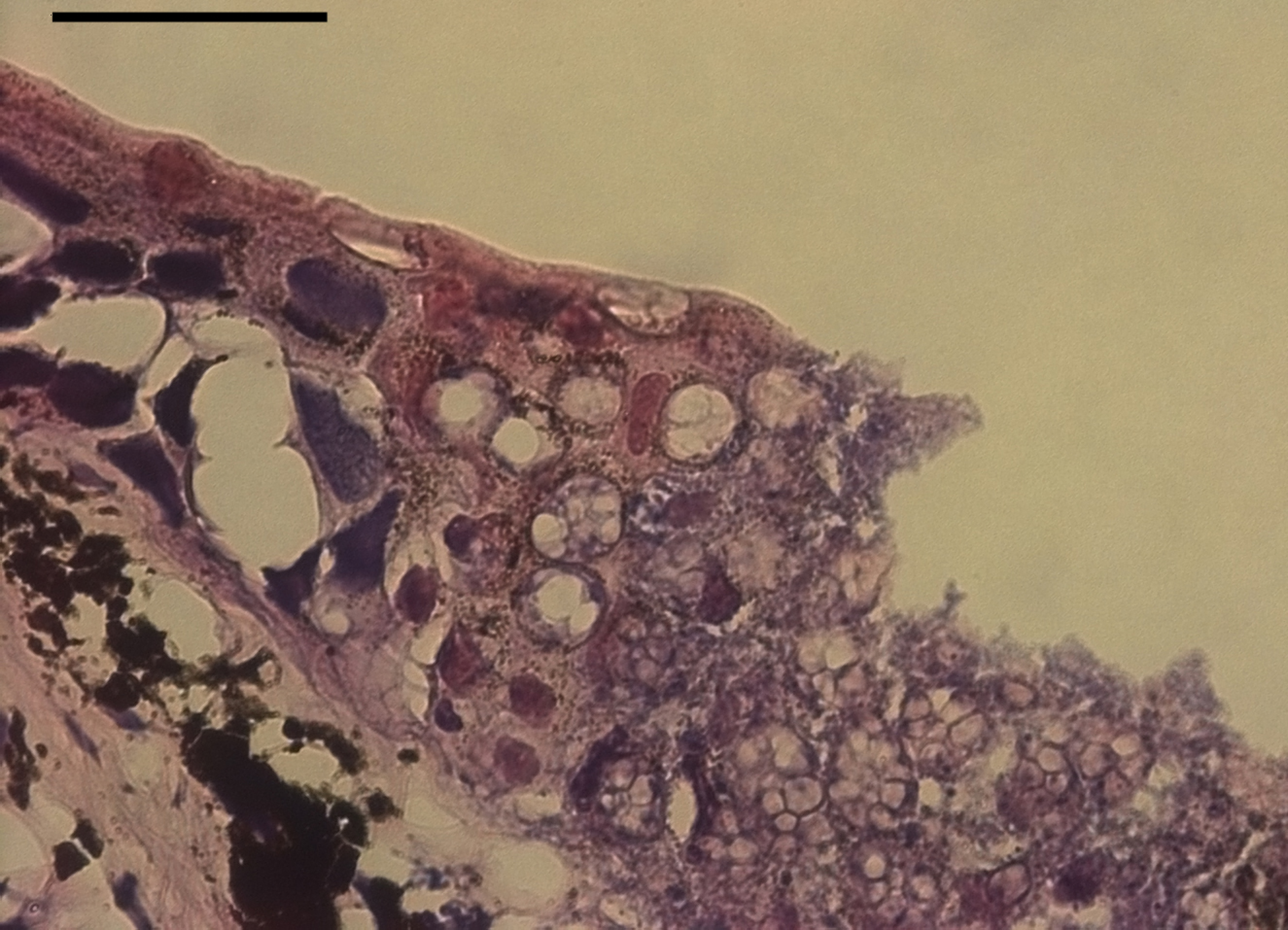 Bsal infection in the skin of a fire salamander (Salamandra salamandra), characterized by extensive epidermal necrosis, presence of high numbers of intra-epithelial colonial chytrid thalli, and loss of epithelial integrity (H&E staining, scale bar = 50 μm)